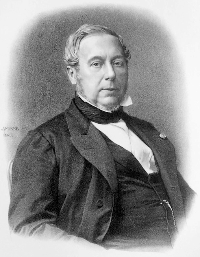 French chemist Théophile-Jules Pelouze (1807-1867)